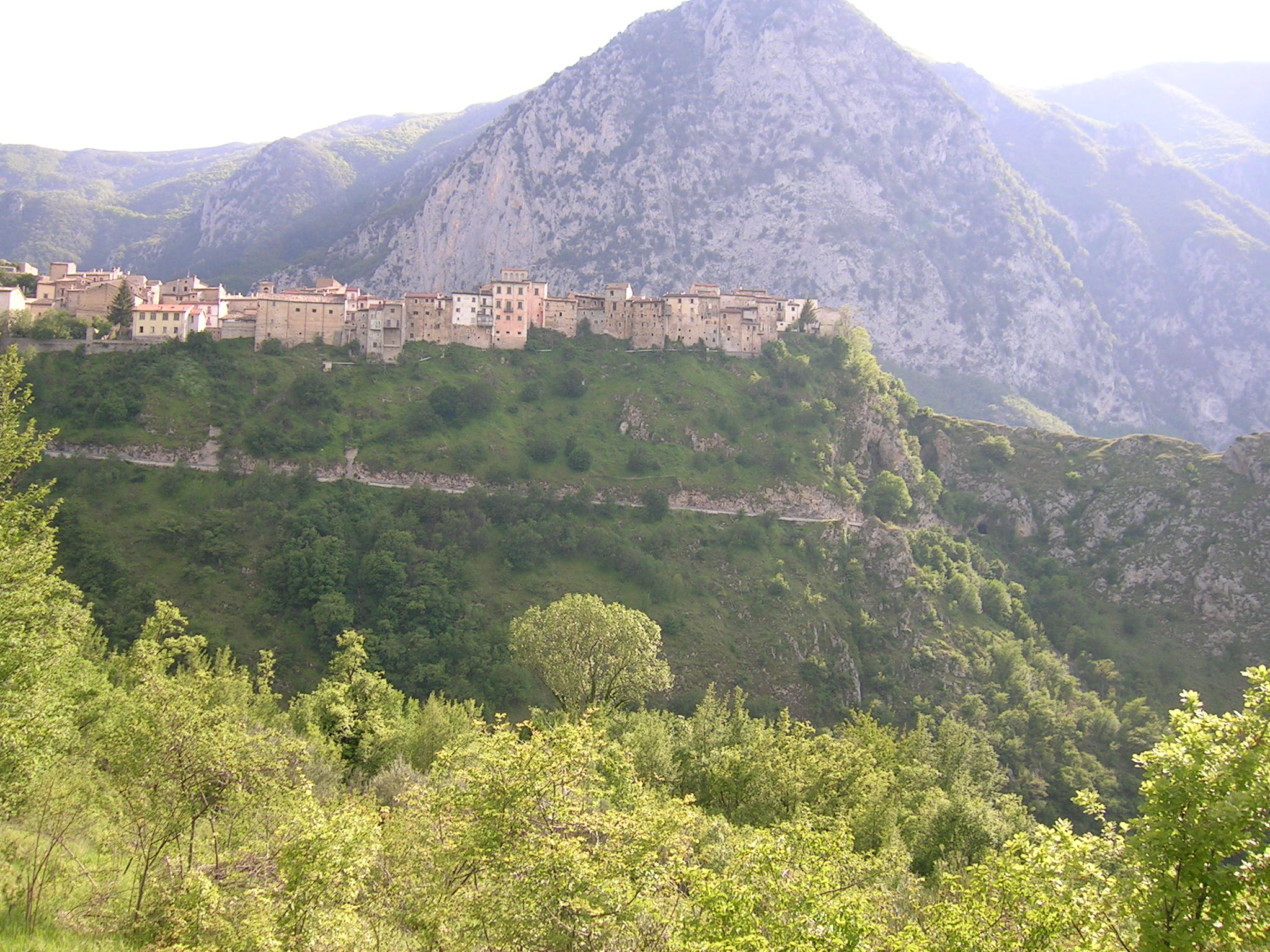 View from East